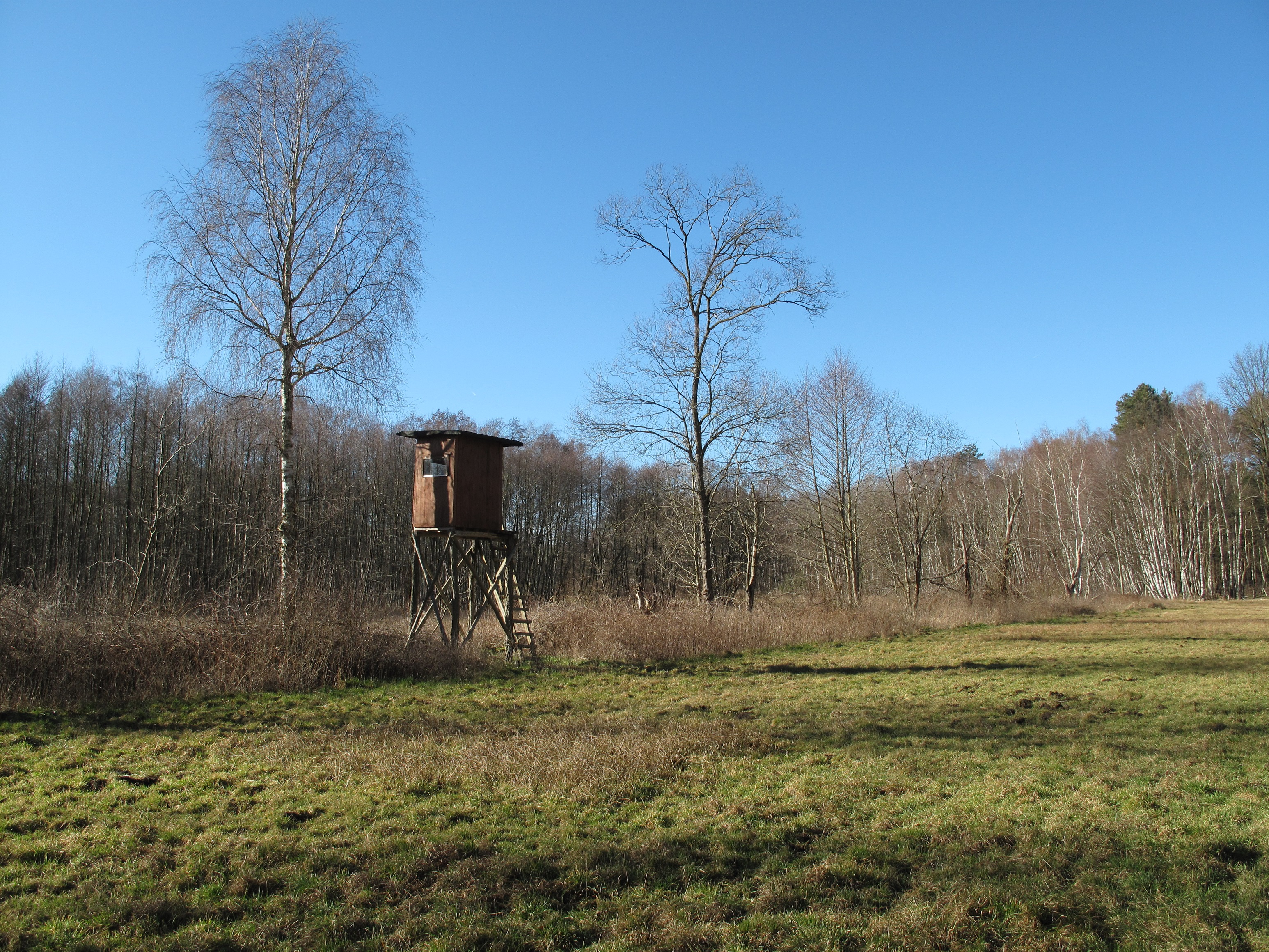 The Naturschutzgebiet Linowsee-Dutzendsee is a Naturschutzgebiet (protected area) and Natura 2000-area in the districts Oder-Spree and Dahme-Spreewald in Brandenburg, Germany. The area covers about 60 hectare and is situated in the Dahme-Heideseen Nature Park. Central parts of the area are the very shallow lake Linowsee and the terrestrialisation mire of the former Dutzendsee.